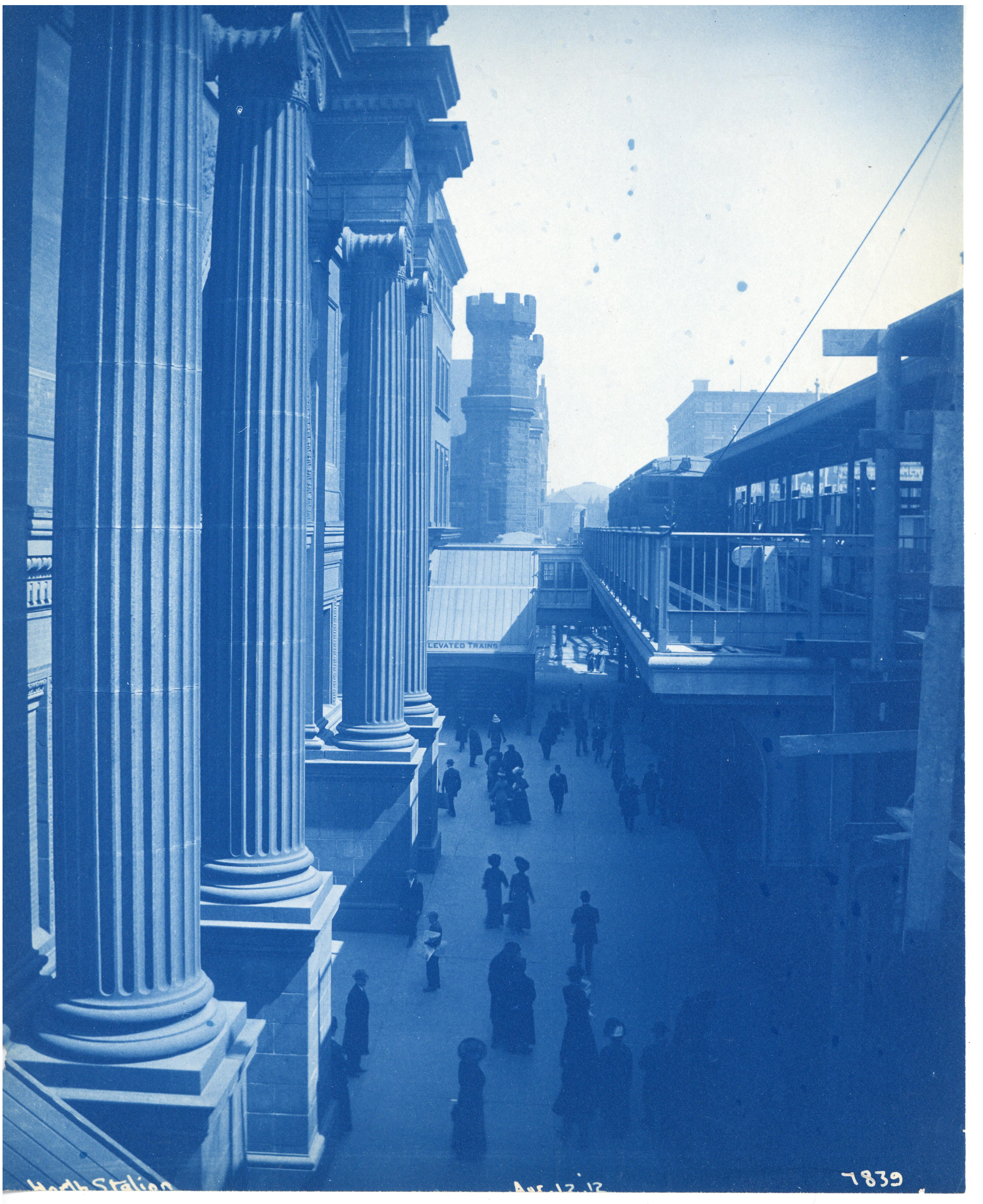 An Atlantic Avenue Elevated shuttle train at the shuttle platform at North Station in August 1912. North Union Station and the old Fitchburg Railroad depot are at left.